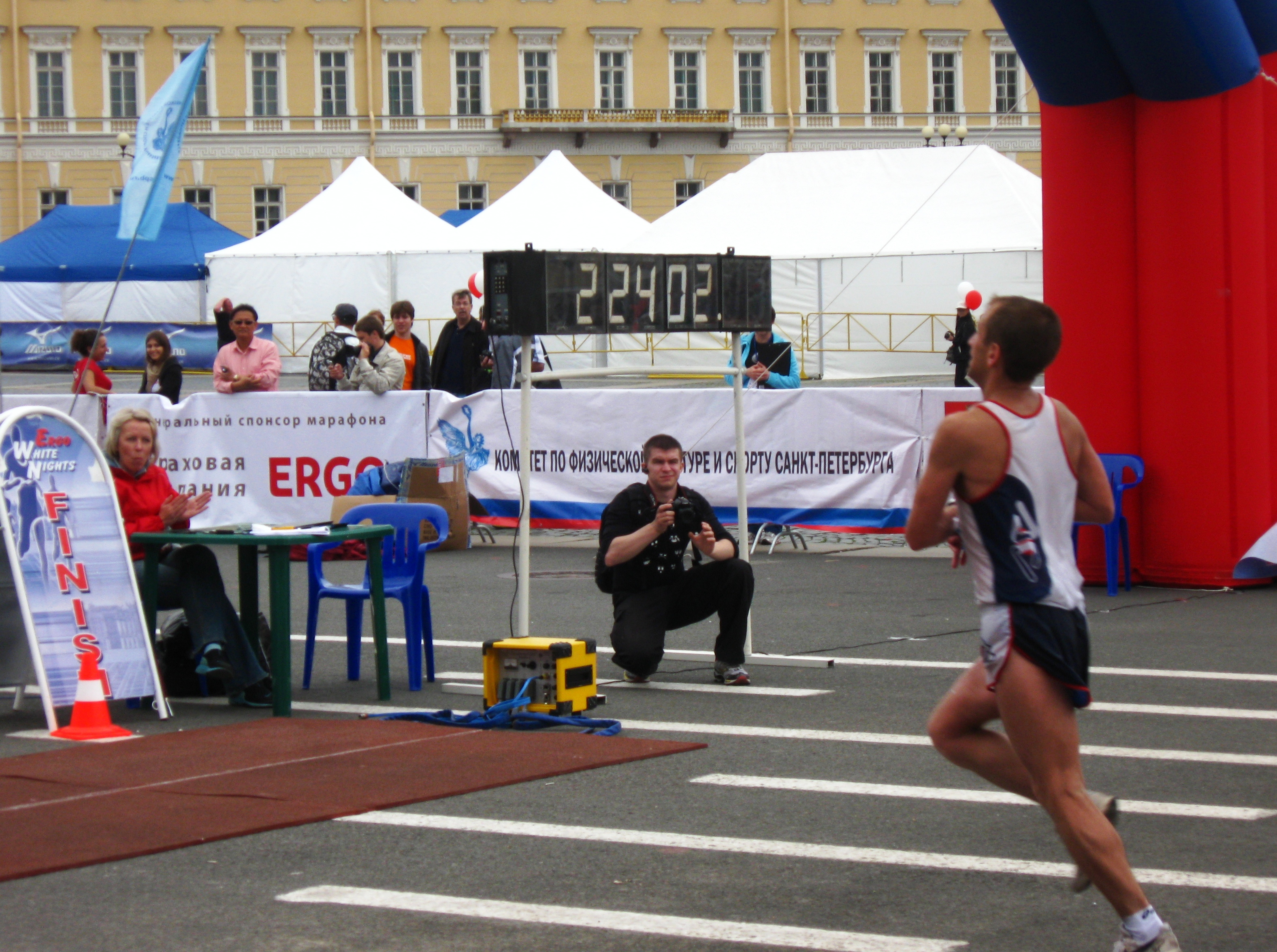 KNYAGIN Oleg from Kirov finished at ХXI international Marathon "ERGO White Nights" St.Petersburg, Russia. June, 26, 2011